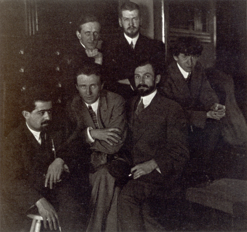 Unknown photographer: A Group of Young American Artists of the Modern School (from left to right: Jo Davidson, Edward Steichen, Arthur B. Carles, John Marin; back: Marsden Hartley, Laurence Fellows), c. 1911, Bates College Museum of Art